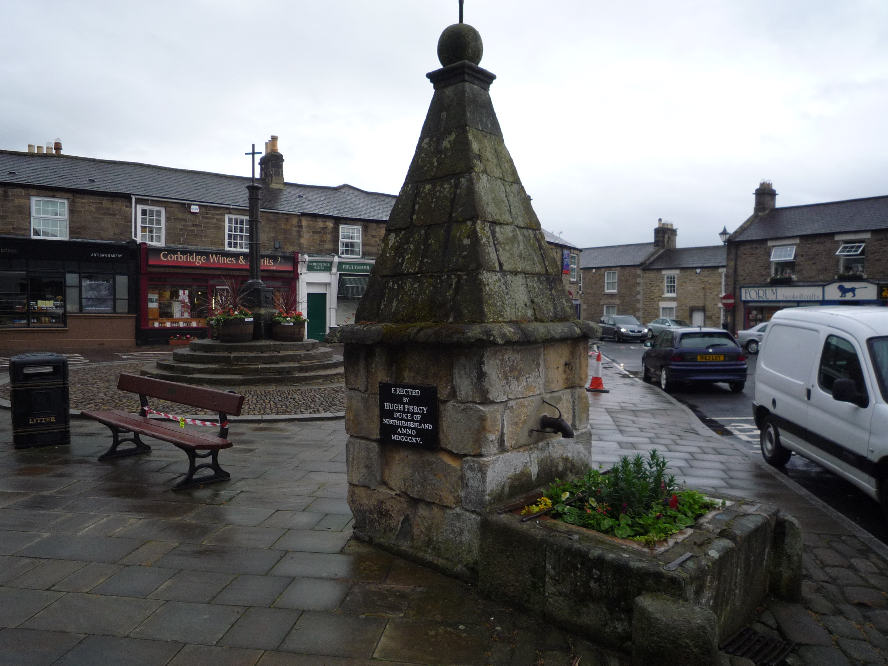 The pant (water supply fountain) in Market Place, Corbridge, Northumberland, England. The plaque reads: Erected by Hugh Percy, Duke of Northumberland. Anno. MDCCCXV (1815). Entry on the PMSA website. The Market Cross is in the background.